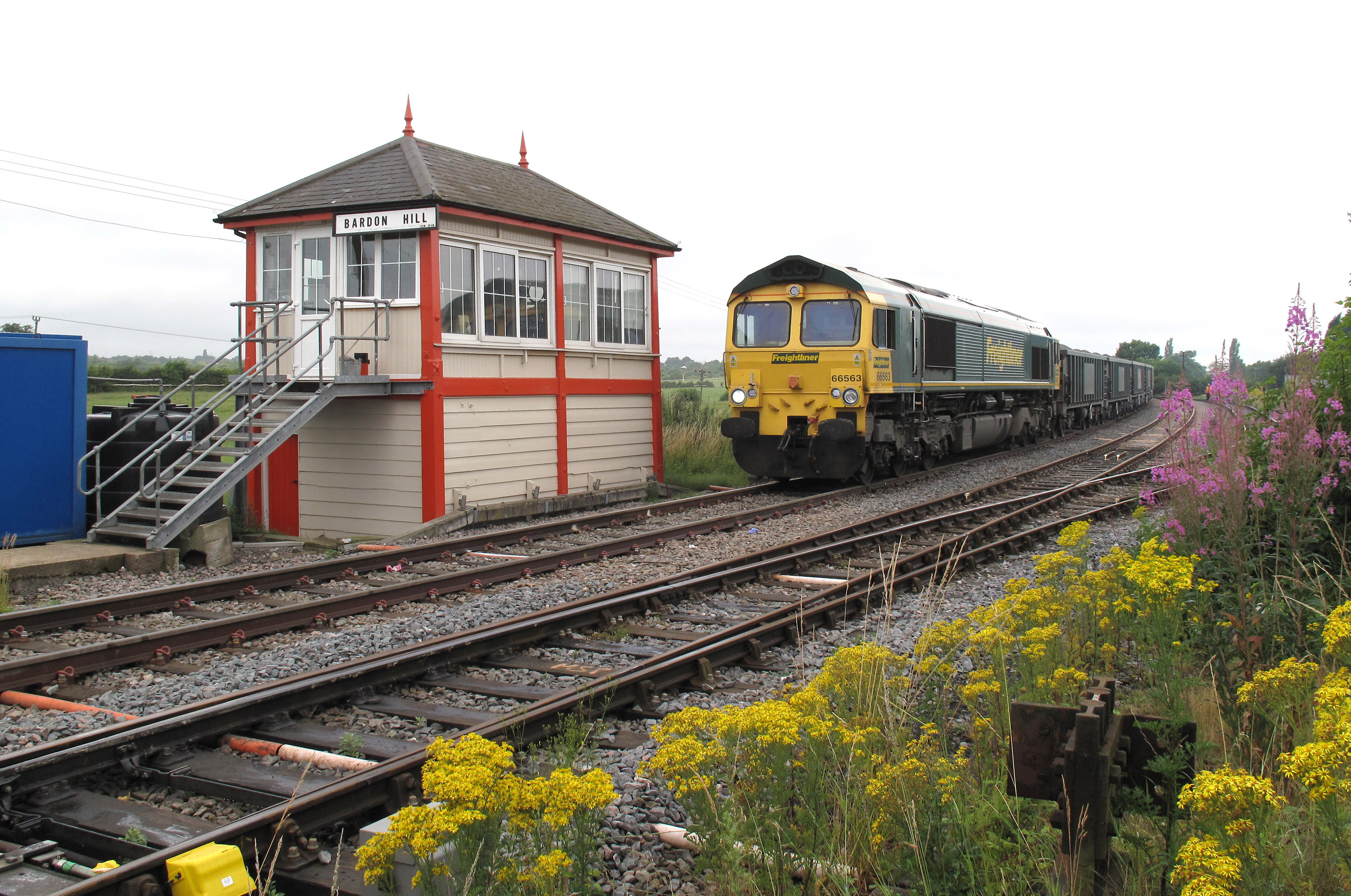 A train loaded with Granite chippings departs from the Bardon Hill quarry exchange sidings on the former Leicester and Swannington Railway. Hauled by Freightliner class-66 Co-Co 66563, the train is heading south to the London area. Bardon Hill signal box is a Midland Railway type 2b box dating from 1899, although the original mechanical lever frame has been replaced by electrical switches.